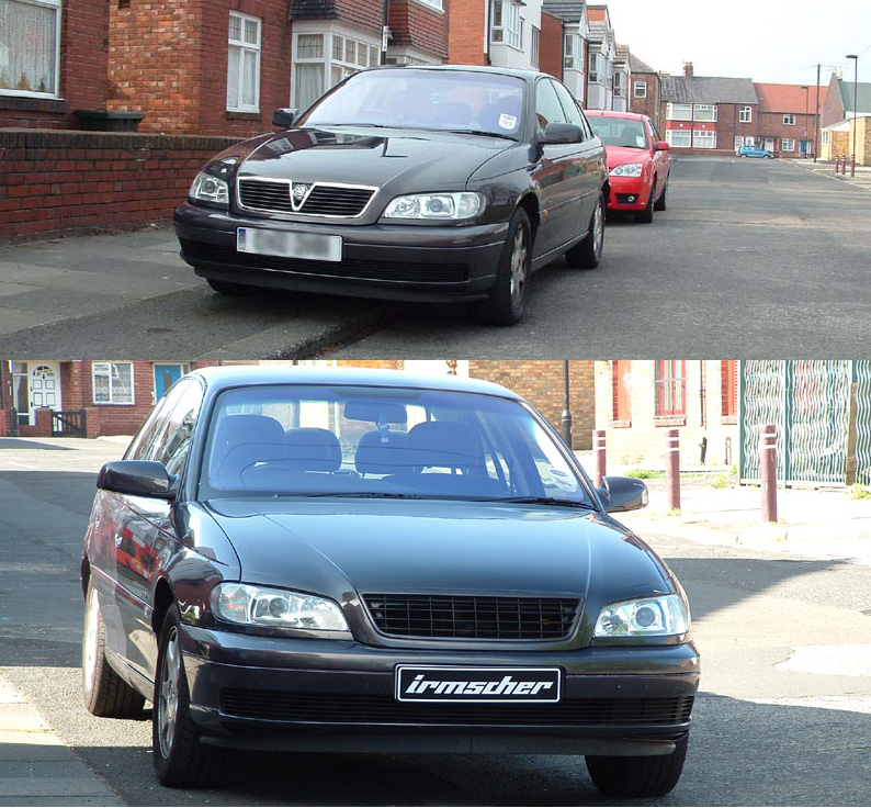 Photos taken by myself of my own car before and after debadging.